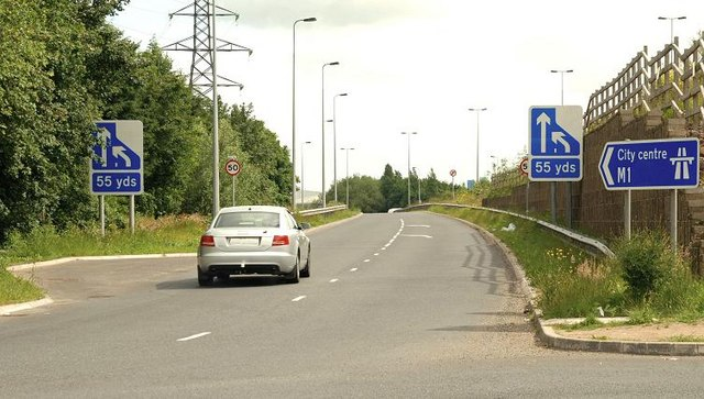 The M1 at Stockman's Lane, Belfast (8). See 1346777. The on-slip used by traffic heading towards the city centre, the Westlink 1077095 and the M2 272921. This is probably the quietest part of the roundabout during the off-peak hours. Continue to 1346845.